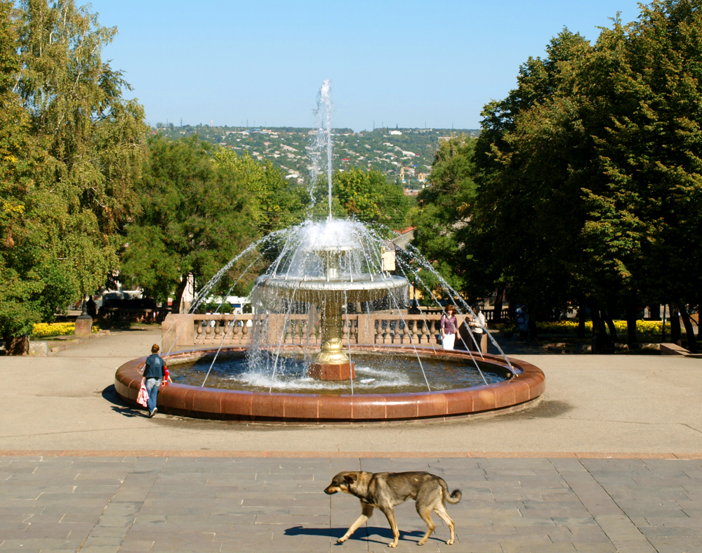 Feral dog on the Red Square in Luhansk. There is a fountain in the background.